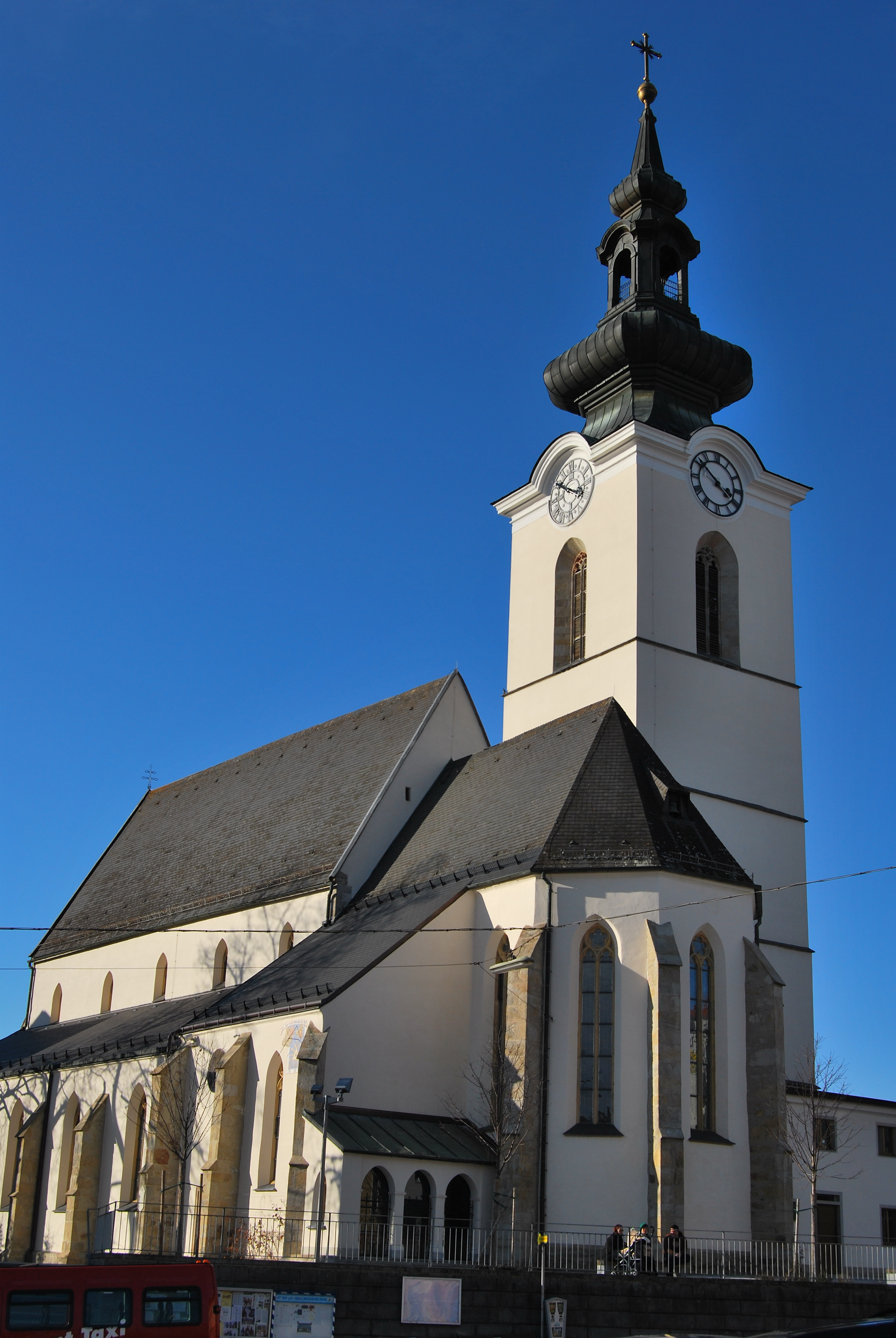 The catholic church in Gallneukirchen.